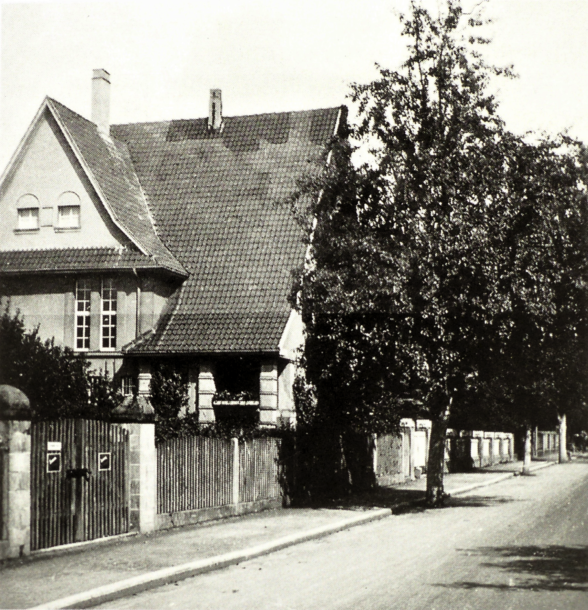 "Sonnenhaus" (= Solar House), erected in 1914 by the German architect August Berger of Hildburghausen in Upper Franconia for the family of German entrepreneur Otto Bamberger located at Kronacher Strasse 19 in Lichtenfels, Upper Franconia, Bavaria. The street name was changed to Adolf-Hitler-Strasse after the Nazis came to power. In 1937 the villa's address changed from no. 19 to 21, so today its address is Kronacher Strasse 21. In 1928 the interior of the villa got completely redesigned and fitted by Bauhaus designer Erich Dieckmann (1896–1944) who was a friend of Otto Bamberger. Due to his Jewish background and his membership in the Social Democratic Party (SPD) Bamberger in 1933 was incarcerated in Frankfurt am Main by Sturmabteilung (SA) troops where he got interrogated. After his release he died caused by a heart attack. In 1938 his son Klaus and his wife Henrietta „Jetta“ Bamberger (1886–1978), née Wolff, emigrated to the US, in 1939 his daughter Ruth, too. During "Kristallnacht" on 9 November 1938 local Sturmabteilung (SA) troops raided the villa, destroyed a historic dutch tiled stove in the main living room and threw hundreds of books from the villa's library on the street. The next day Bamberger's collection of several hundreds of artwork by Ernst Barlach, Max Beckmann, Marc Chagall, Lovis Corinth, Otto Dix, Paul Klee, Oskar Kokoschka, Käthe Kollwitz, Alfred Kubin, Wilhelm Lehmbruck, Max Liebermann, Franz Marc, Paula Modersohn und Emil Nolde and others were confiscated as degenerate. The villa today is a protected monument and will be used as a children's after-school care club. The picture might be made either during WWII or after. The villa's fence, then described as painted in shiny white seems at that time shabby. The villa's roof ridge seems to be repaired.